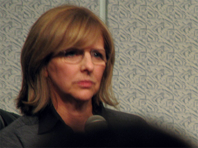 Something's Gotta Give screenwriter Nancy Meyers At one point, she dissed the film 27 Dresses; the moderator informed her that the screenwriter was another of the guests at the event.